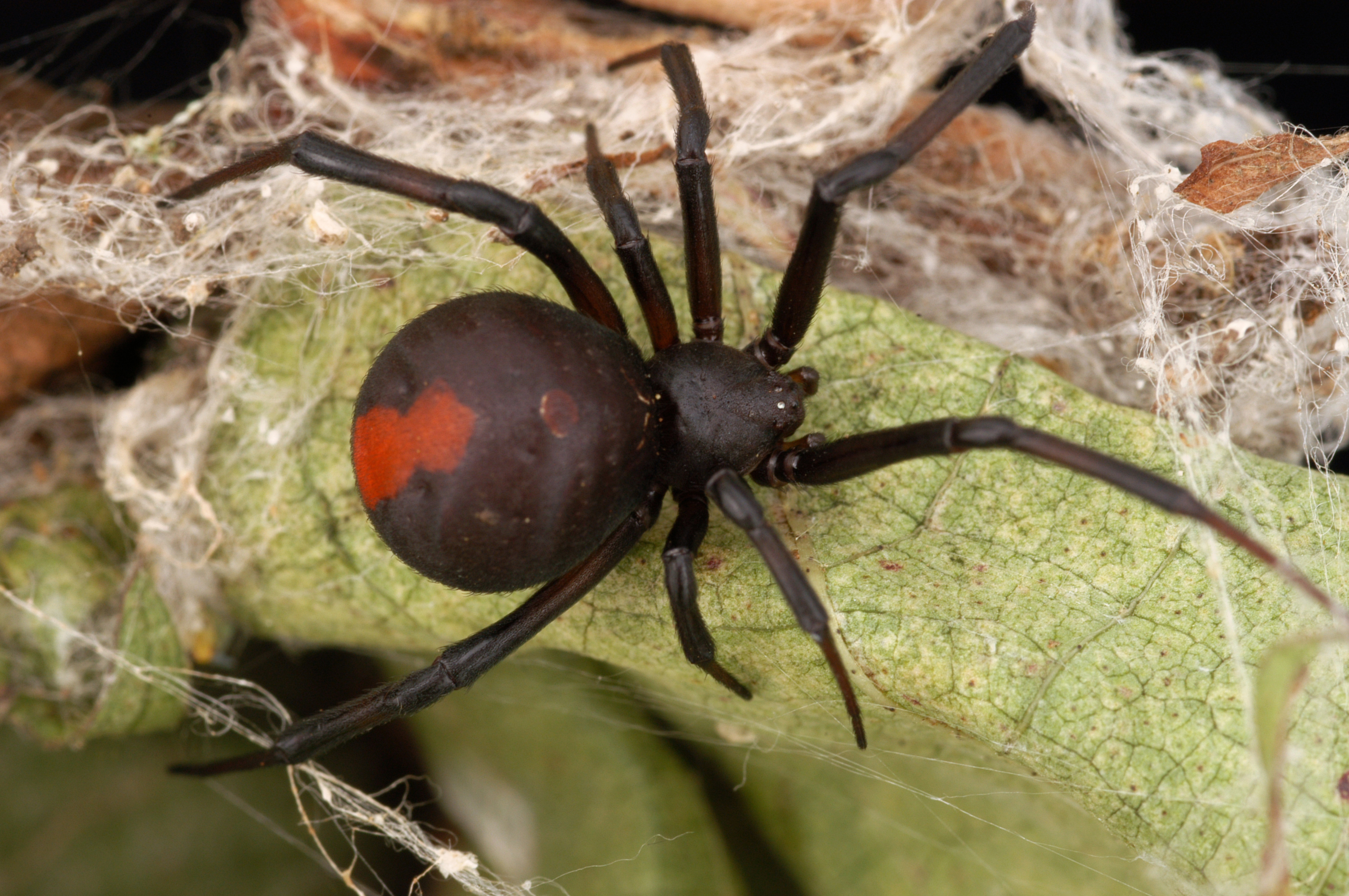 A redback spider, Latrodectus hasseltii, of the family Theridiidae.